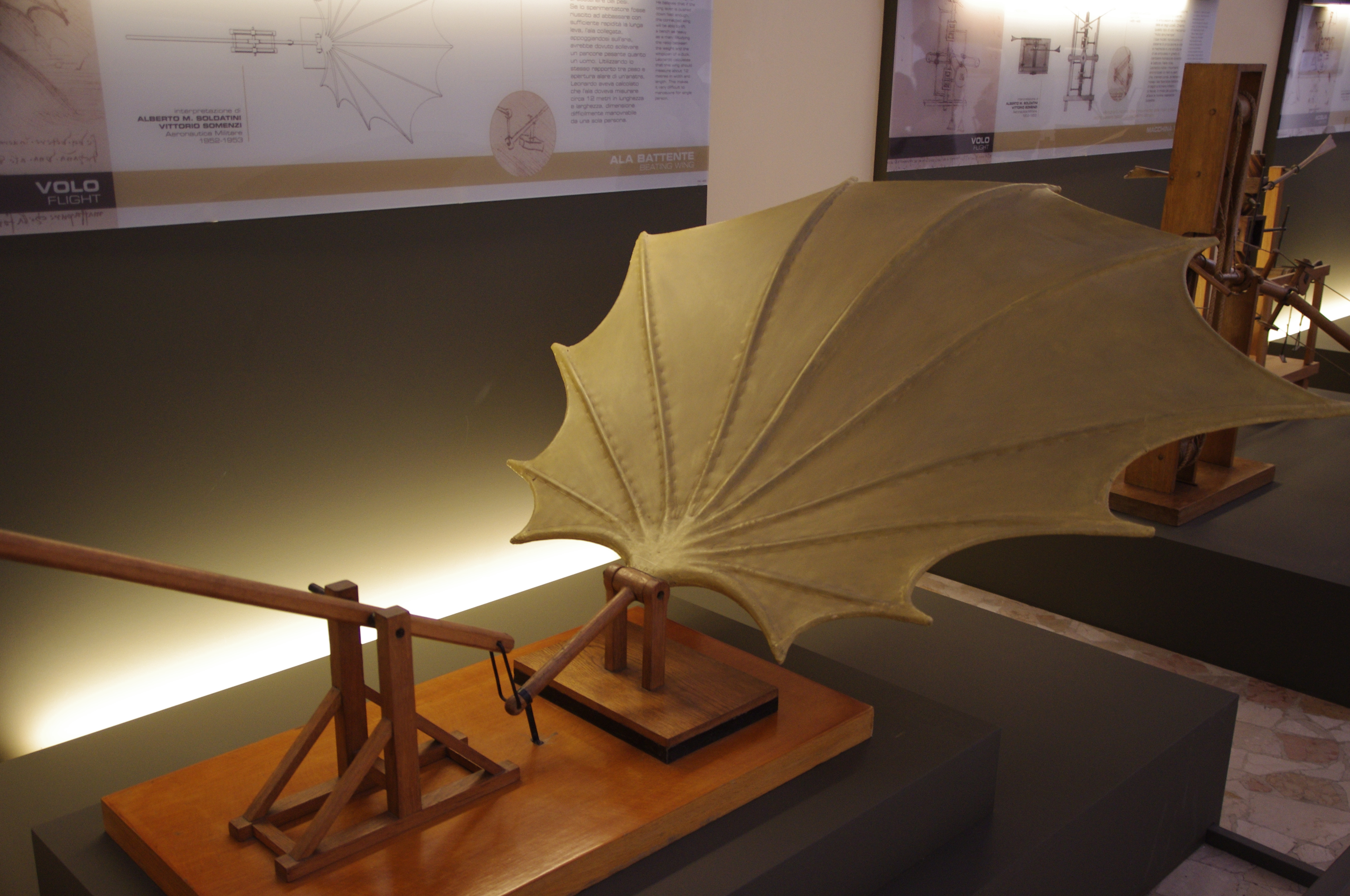 Model of wing, by Leonardo da Vinci, in National Museum of Science and Technology in Milan